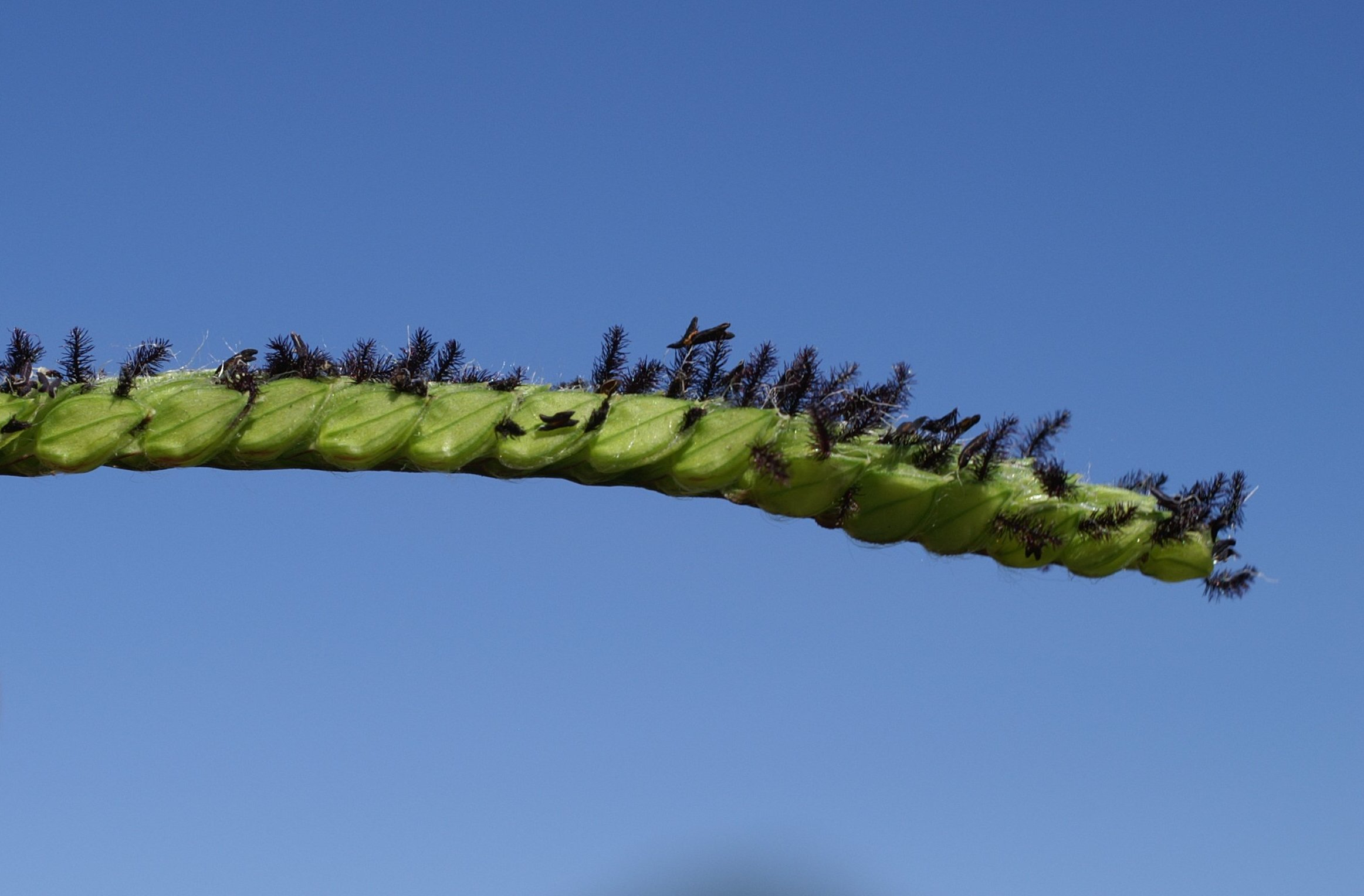 Spikelets occur in 4 rows along the branches and are disc-shaped, oval, 2.8-4 mm long and fringed with long hairs.